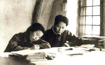 Young Jiang Qing and Mao in Yan'an in 1930s.